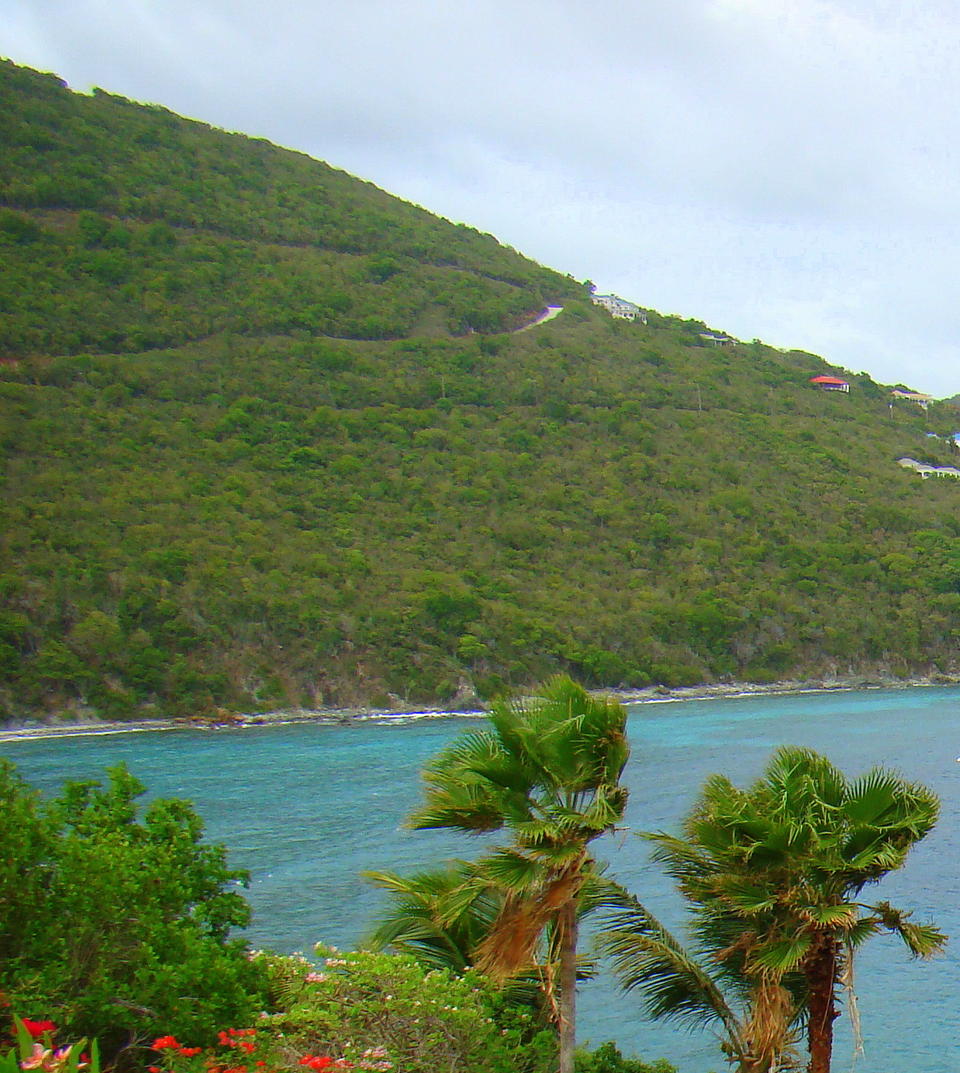 View from Boatman Point area on Saint John, United States Virgin Islands